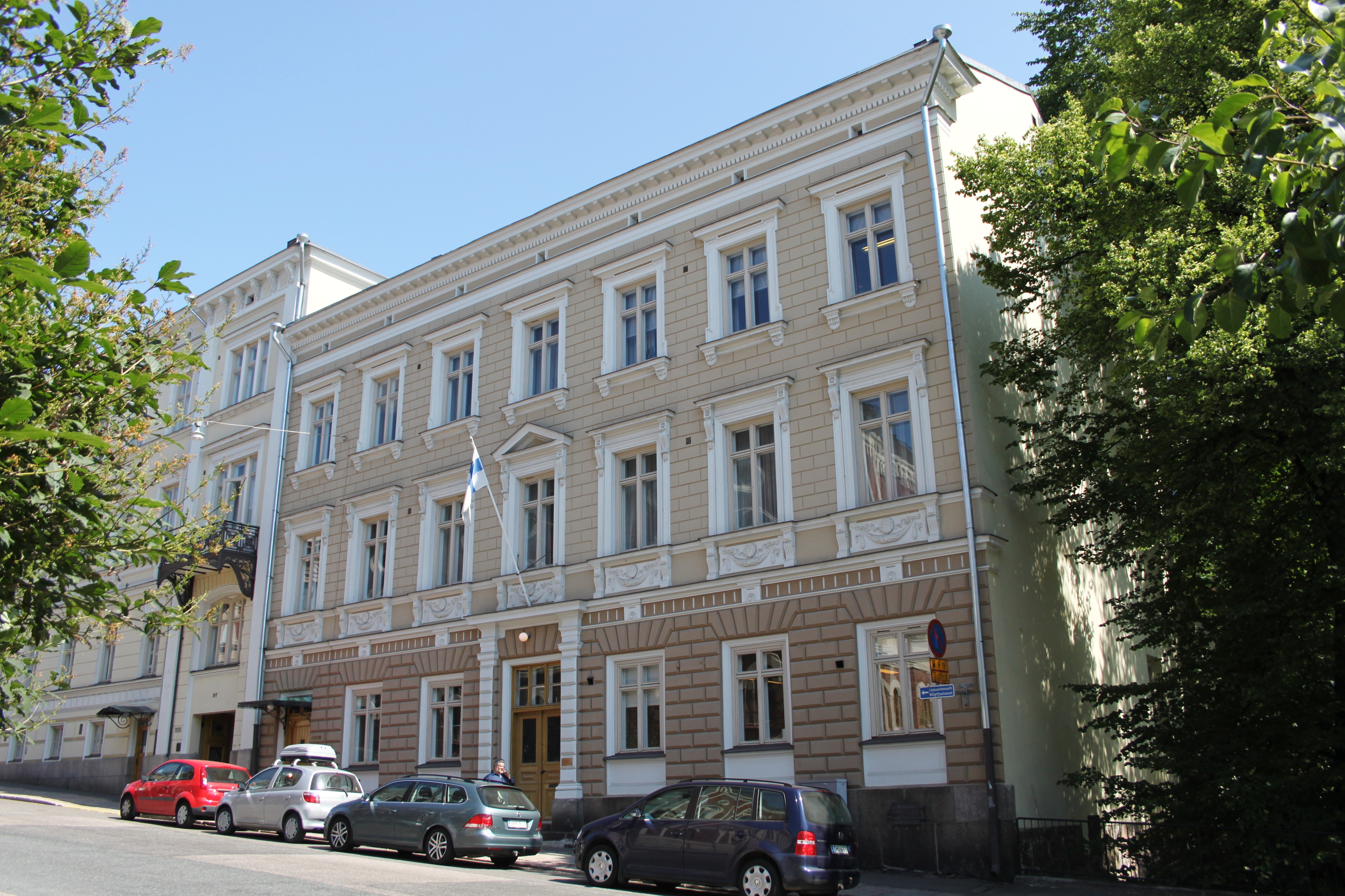 Mariankatu 5, Helsinki. Built 1830